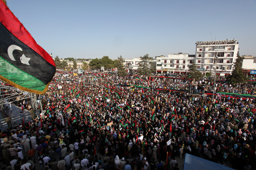 Mass demonstration against the regime of Gaddafi in Bayda, Libya.